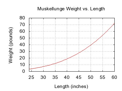 Graph showing weight-length relationship for muskellunge, in English units.